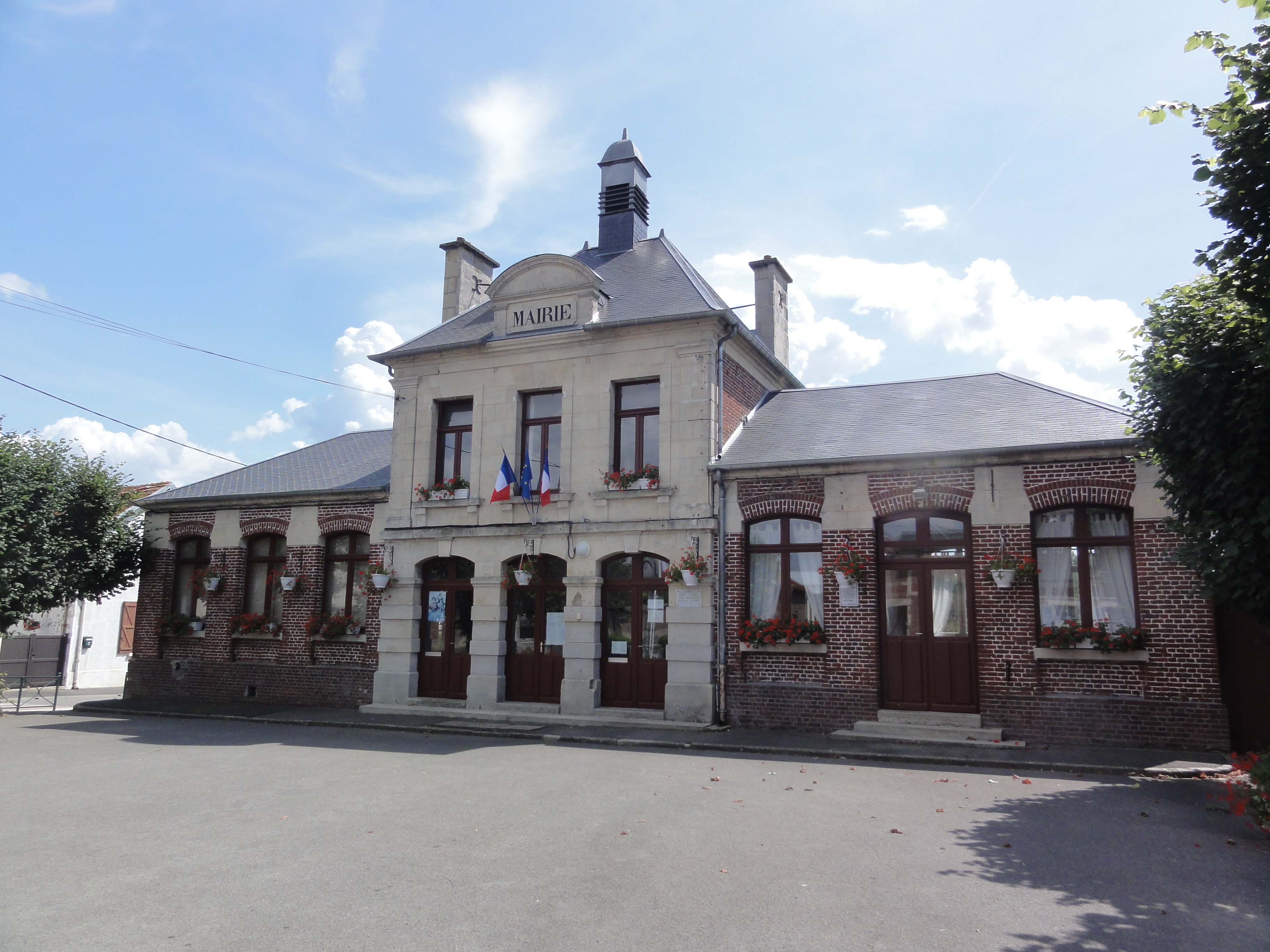 Marest-Dampcourt (Aisne) mairie à Marest